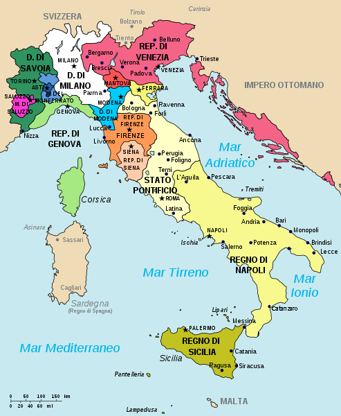 map of Italy in 1494 (Italian names).